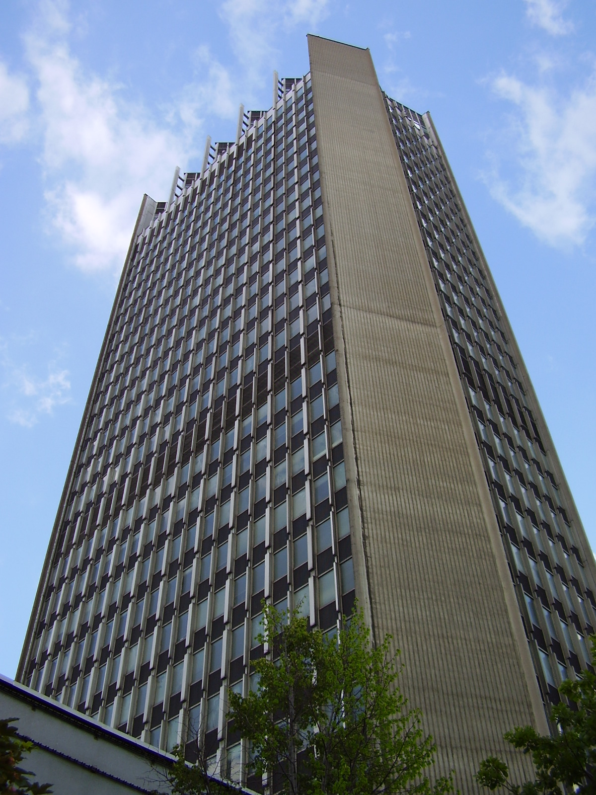 STV Tower